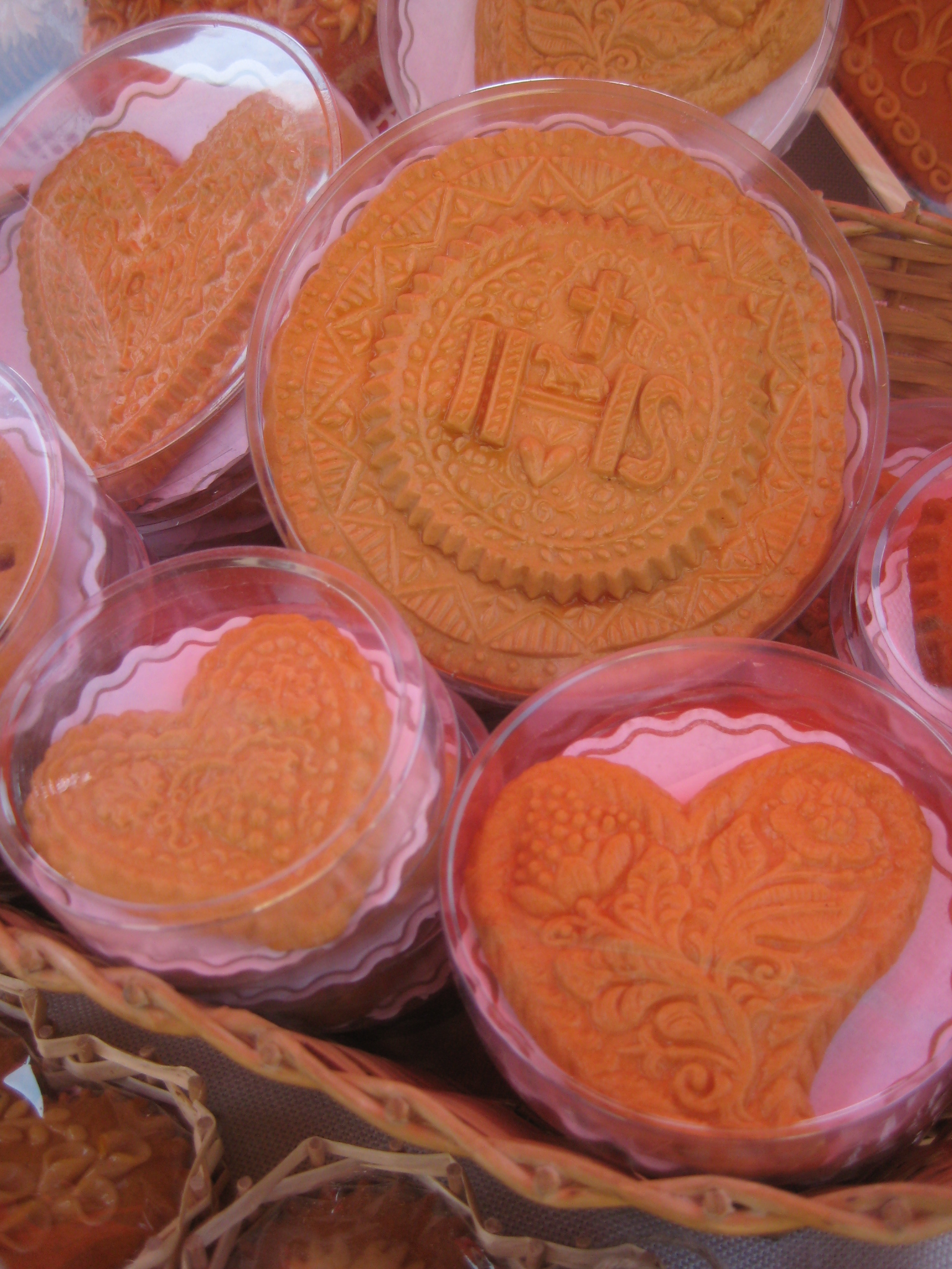 Škofjeloški kruhki (medenjaki)